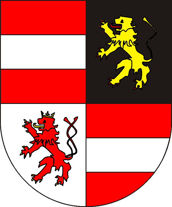 Coats of arms of the duke of Brabant as duke of Lower Lorraine, Brabant and Limburg